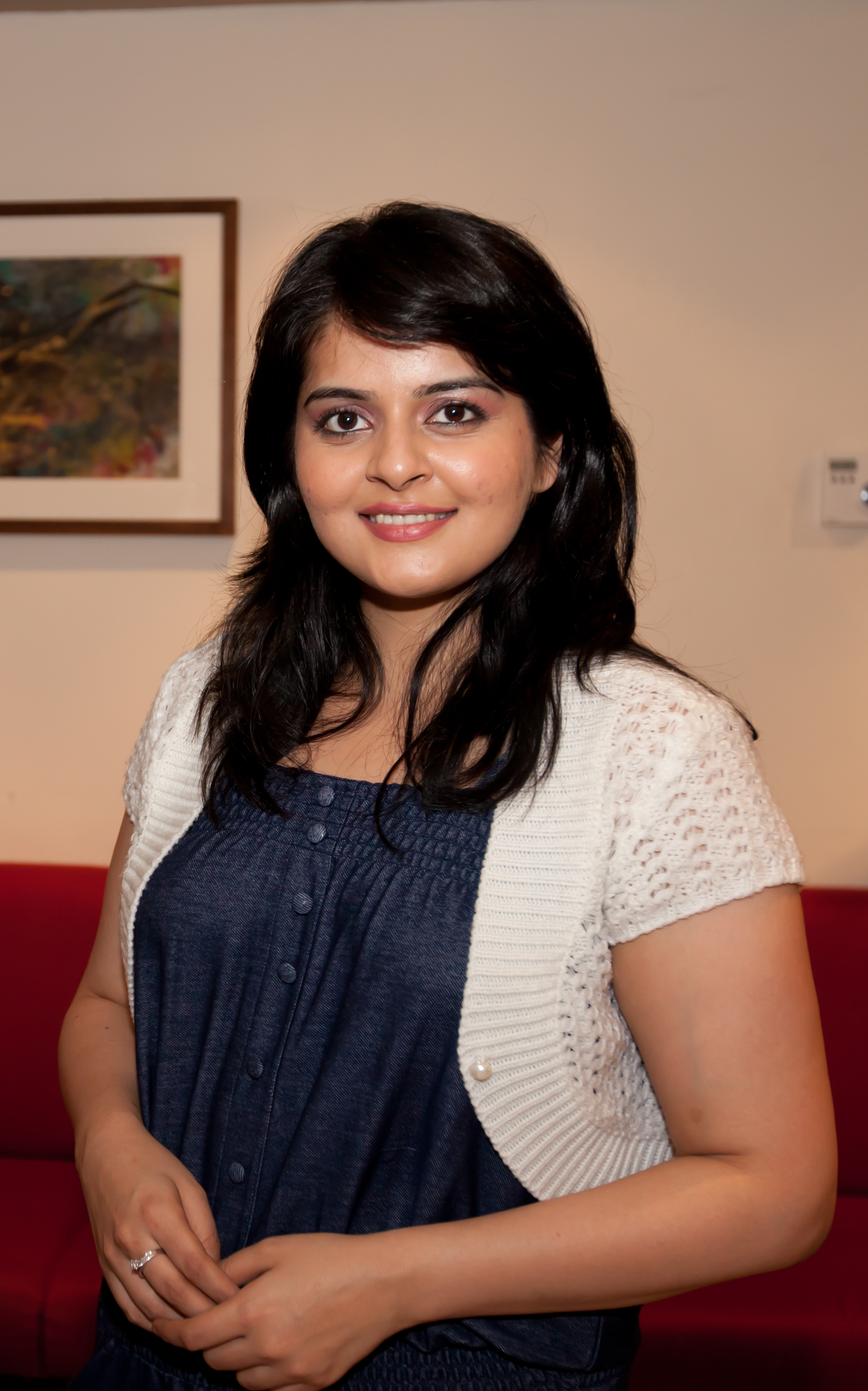 Roma Asrani is an Indian model-turned-actress who works mainly in Malayalam-language films. She has acted in Tamil, Telugu and Kannada films as well.